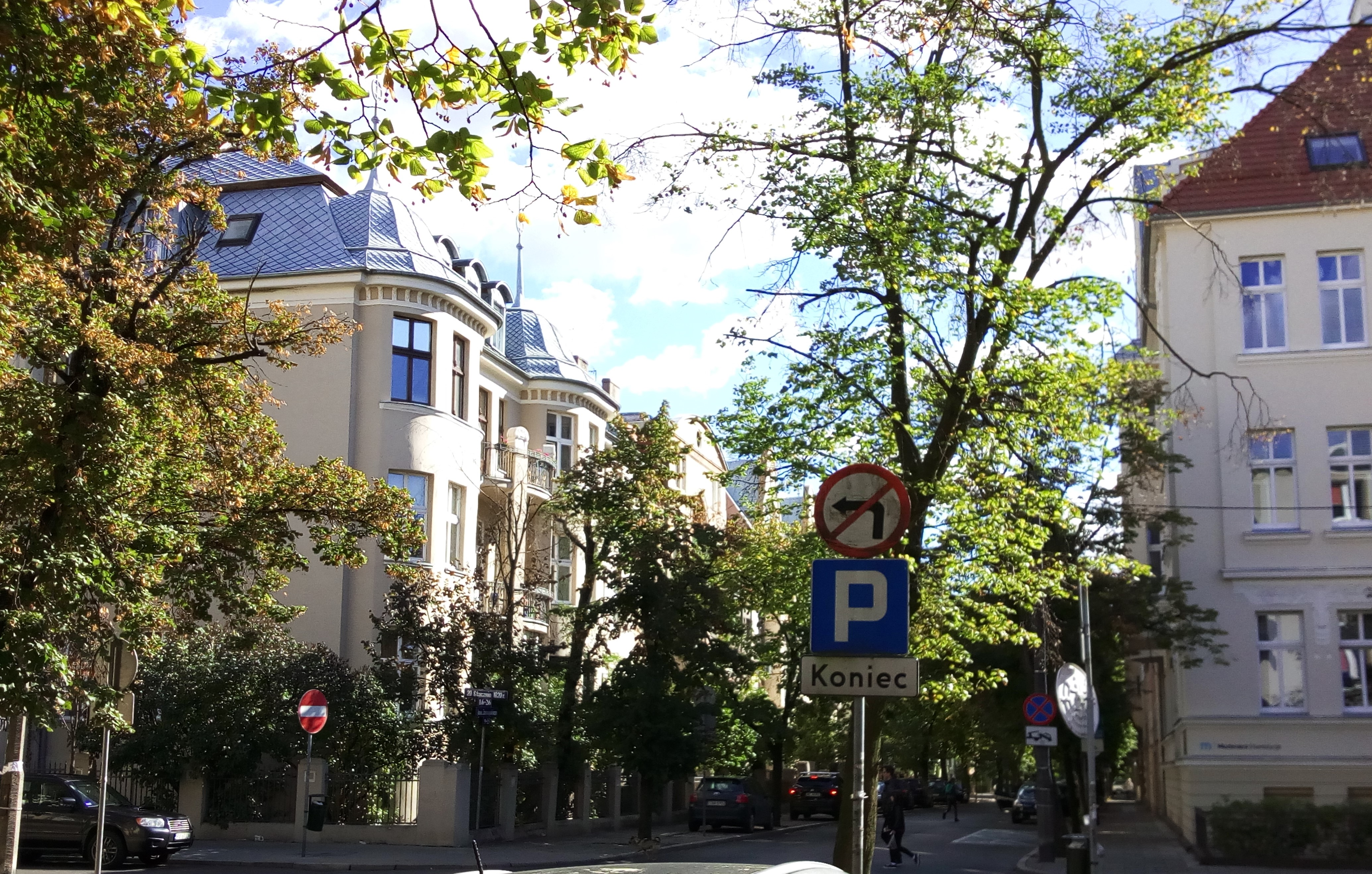 Instance of street view